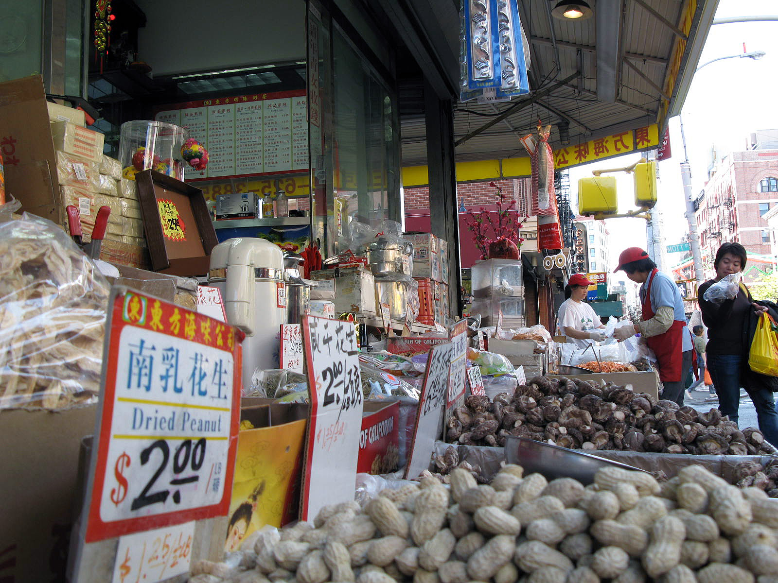 Chinatown (Manhattan), New York City